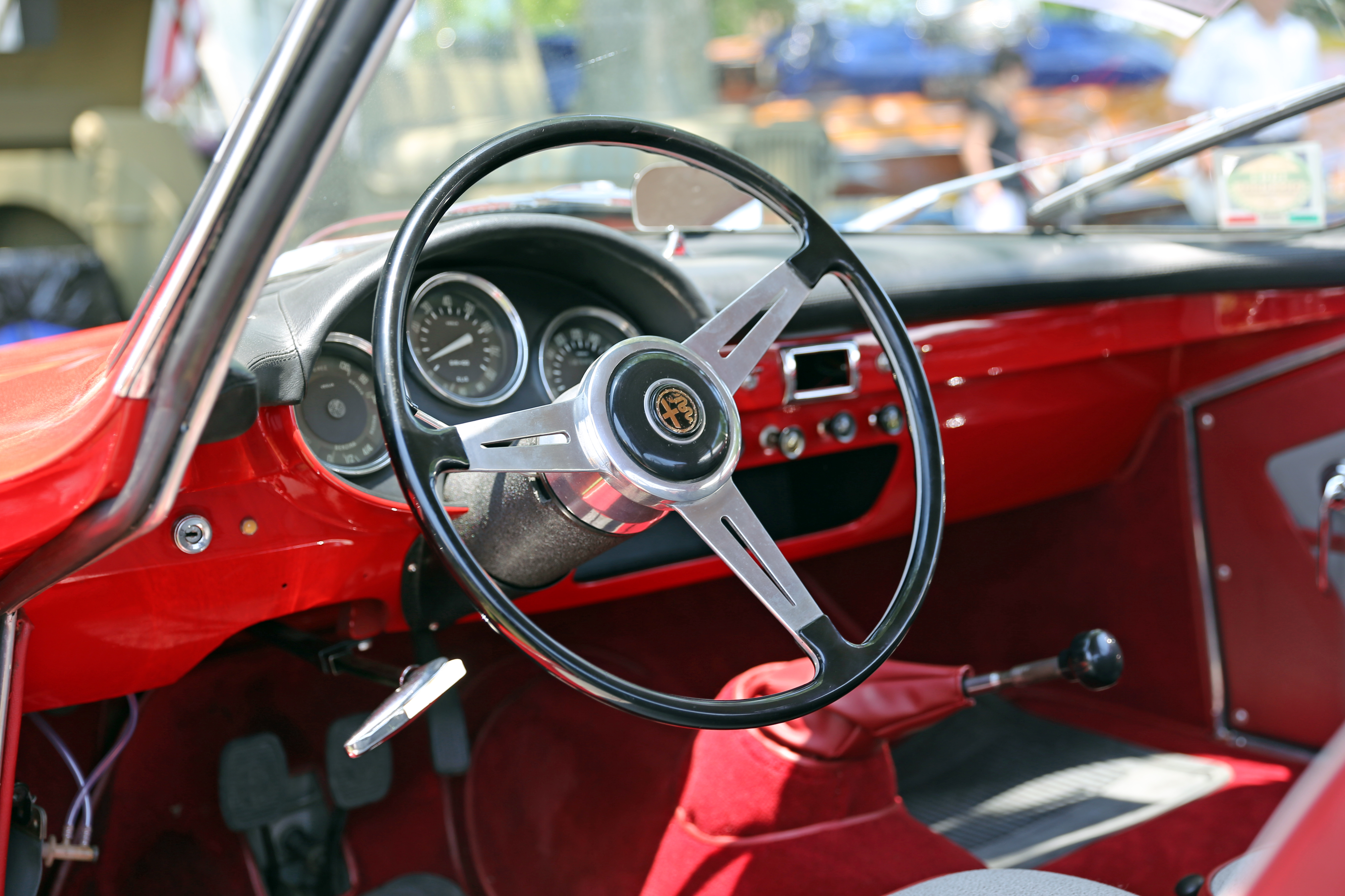 Interior of 1961 Alfa Romeo Giulietta Sprint Speciale at the Bonhams auction attached to the 2013 Greenwich Concours d'Elegance. Chassis no AR 10120*177251, 1290cc 116hp engine. This car was in and around Florence until around 2011.